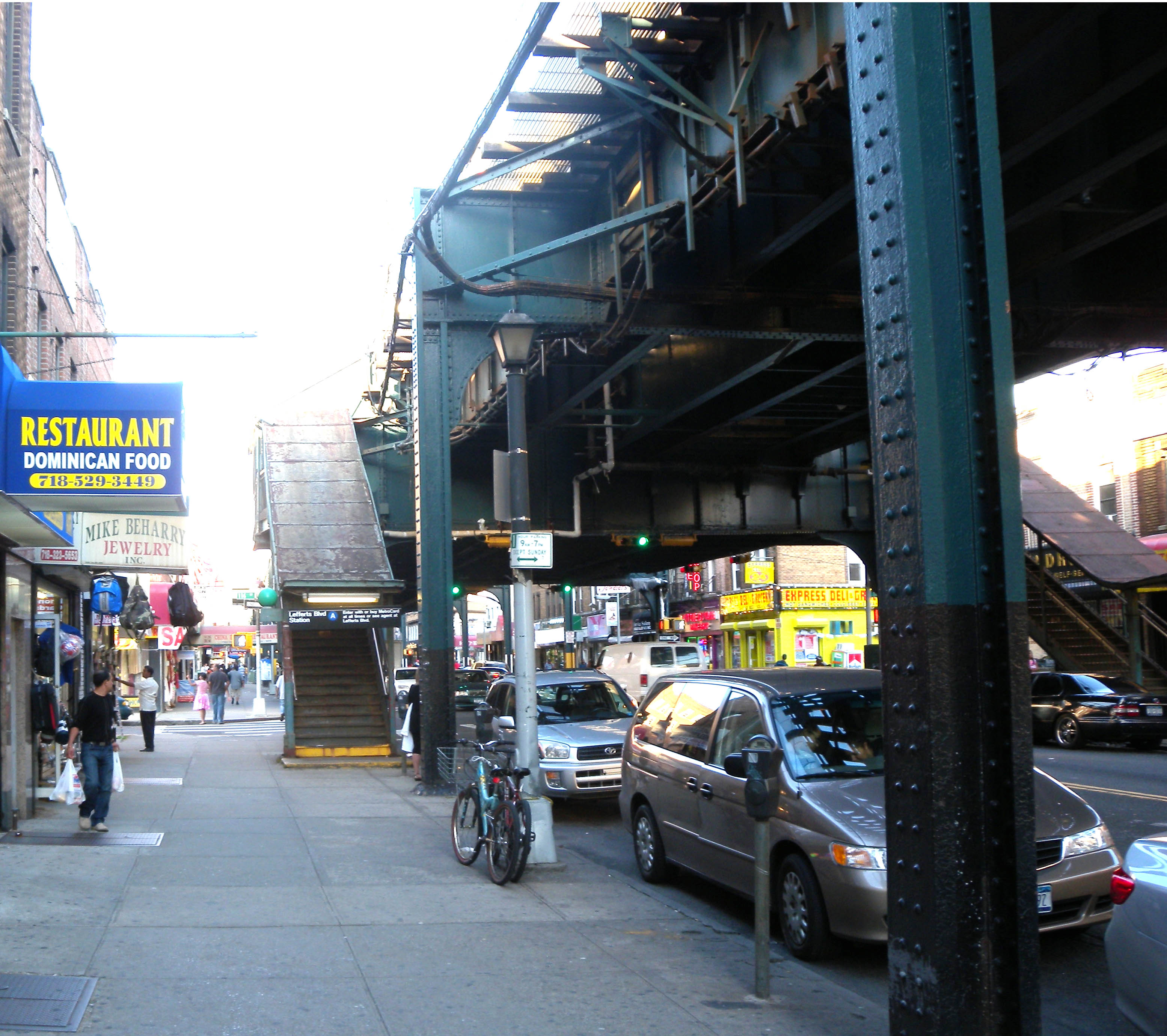 Looking east at Liberty Avenue and northwestern street stair of Ozone Park–Lefferts Boulevard (IND Fulton Street Line)